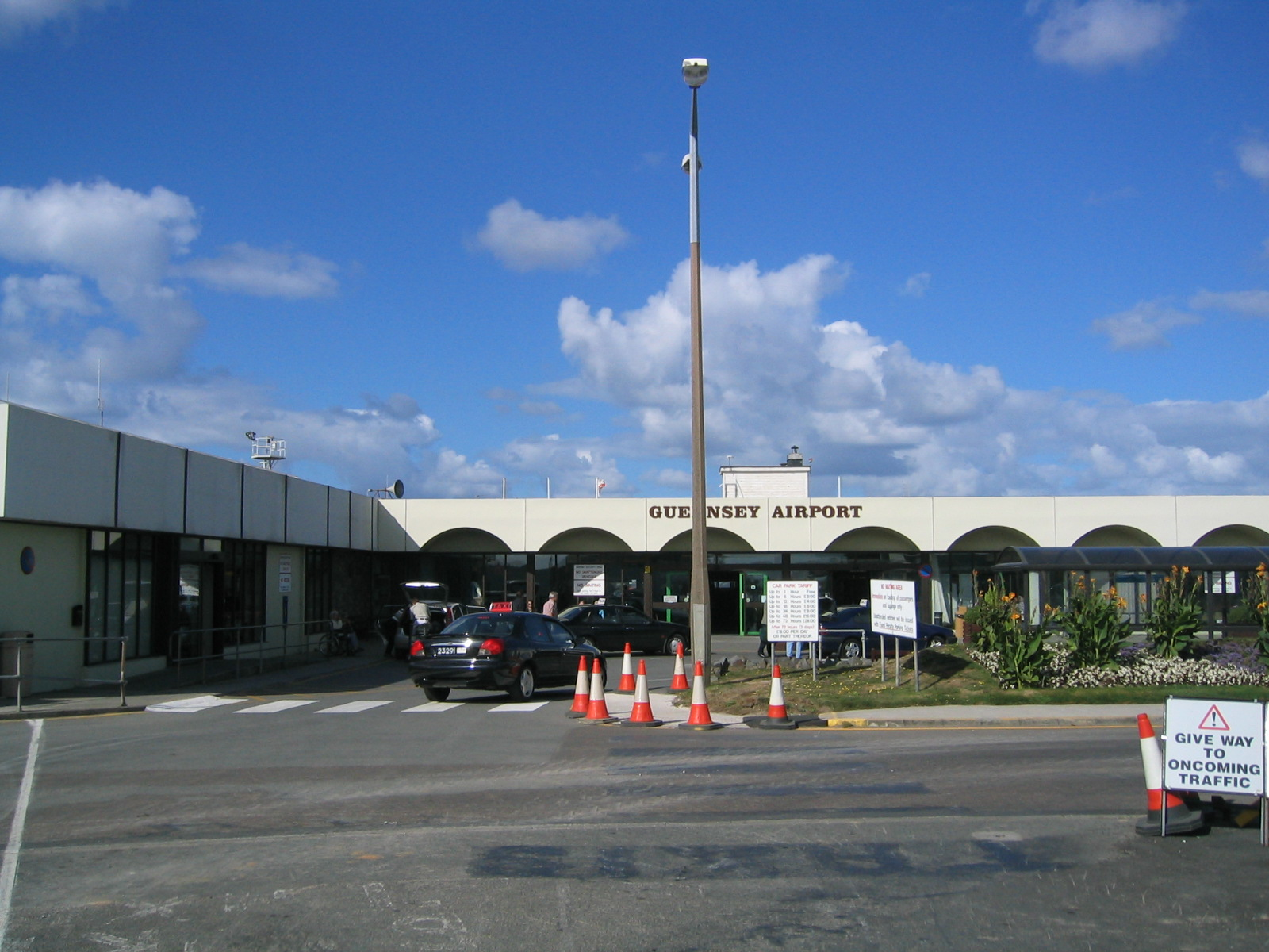 The old terminal building of Guernsey Airport. Photo taken by me 2003-09-23, terminal building demolished May 2004.